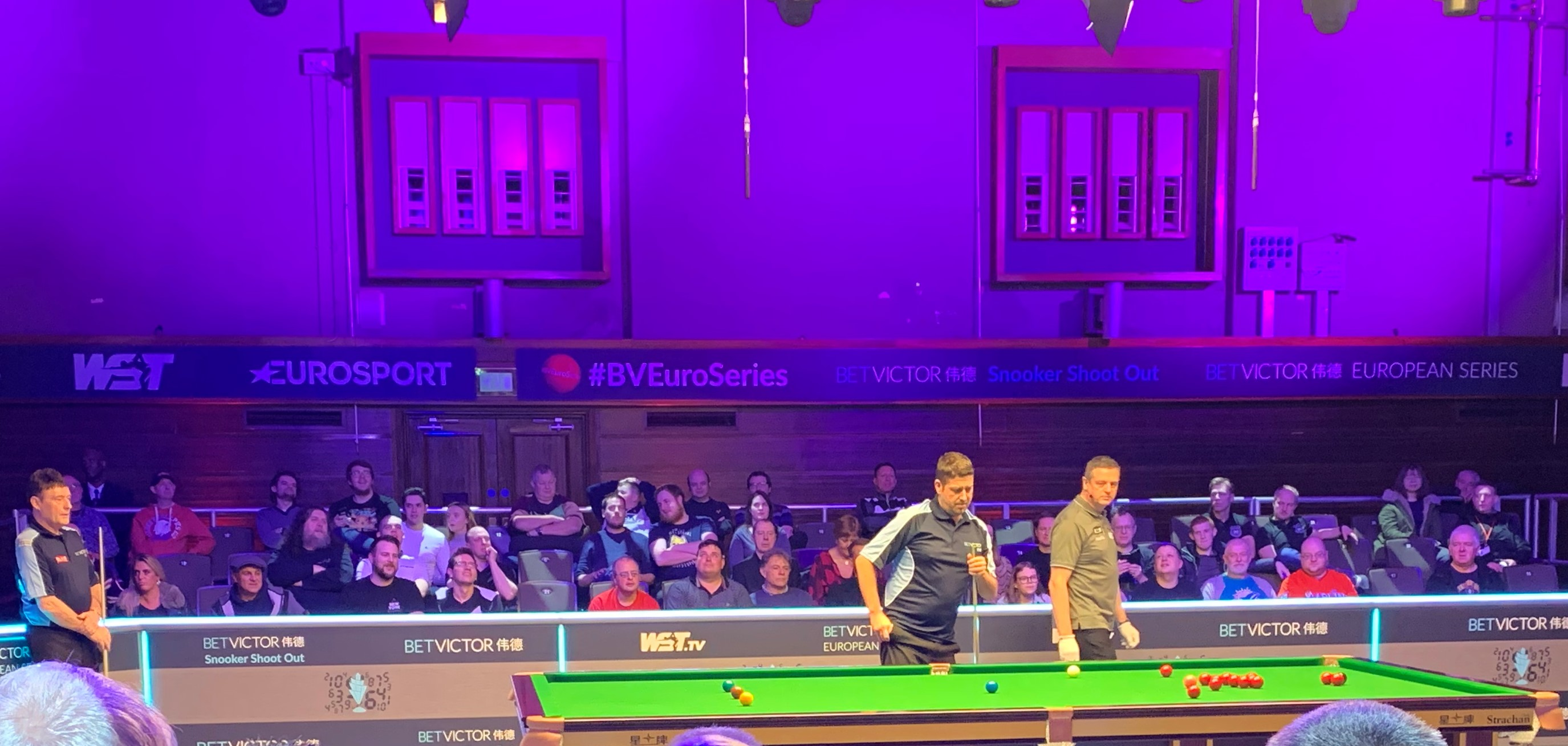 Jimmy White (left) and Matthew Stevens (centre) at the 2020 Snooker Shoot Out